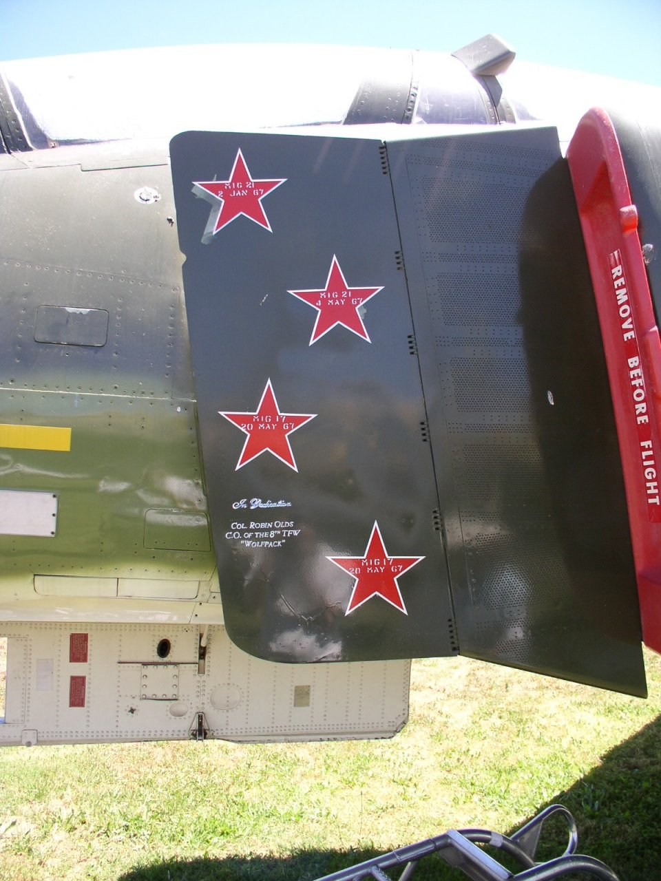 McDonnell F-4C Phantom II. Taken in Pacific Coast Air Museum, Santa Rosa, California, USA.